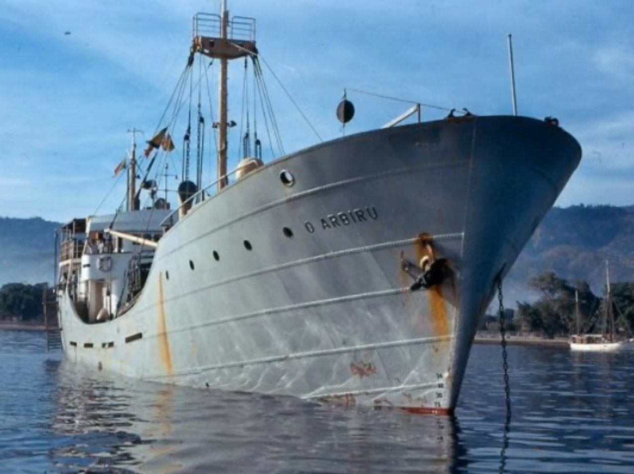 Cargoship O Aribu, obviously in its area of operation. No details are known about the pictures.